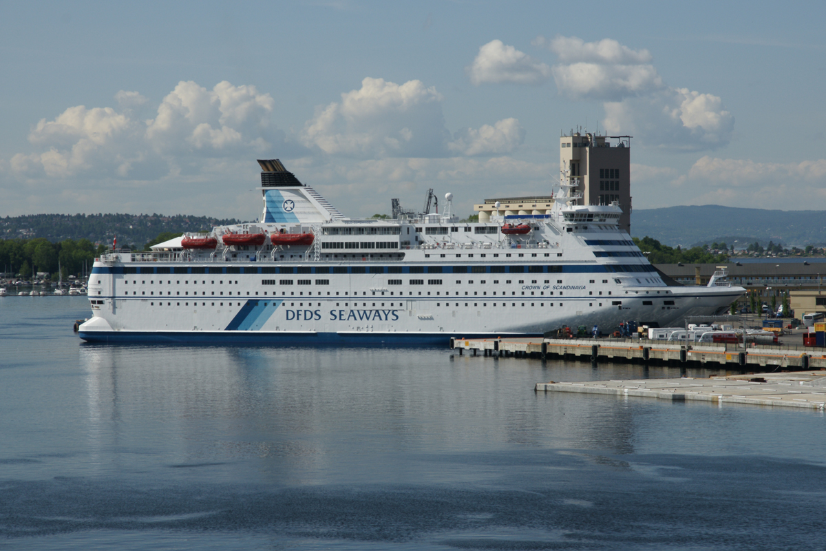 Crown of Scandinavia, a cruise ship belonging to DFDS Seaways. IMO Number: 8917613 MMSI Number: 219592000 Callsign: OXRA6 Length: 171 m Beam: 27 m